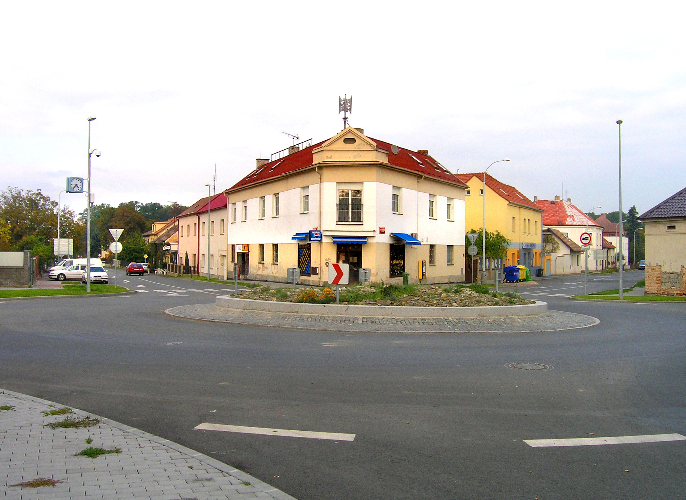 Intersection of Vinořská street and K Radonicům street in Satalice, Prague